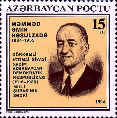 A printing is offset on chalk-overlay paper with glue. Perforation: 12.0. Size of the stamp: 40 x 40 mm. Multicoloured. N 223 - 15 m. A portrait of Mammad Amin Rasulzadeh (1884 - 1955), the outstanding political man of Azerbaijan Republic (1918-1920). There are 25 (5 x 5) stamps in the sheet. Circulation: 100000.